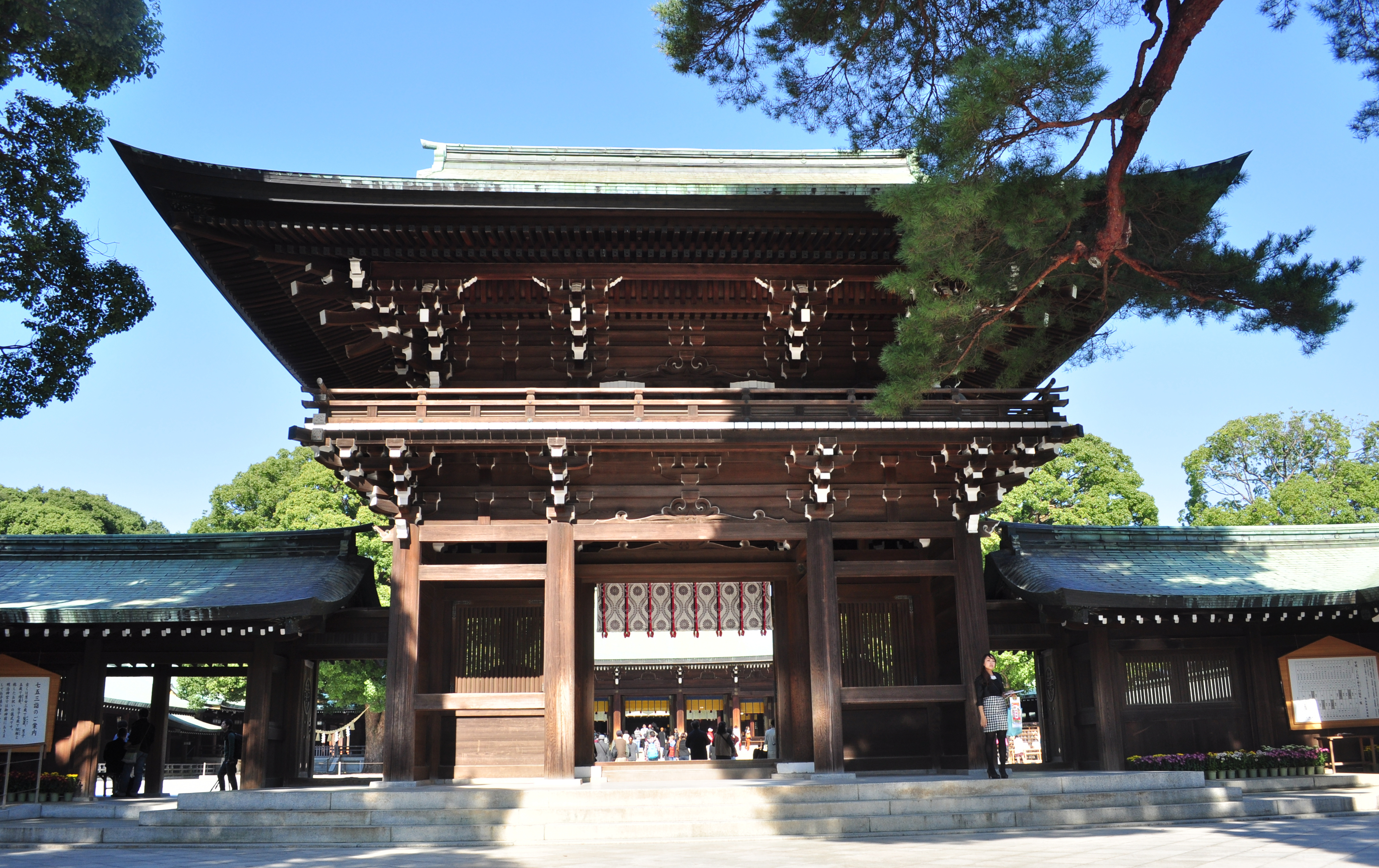 Meiji Shrine, Tokyo.